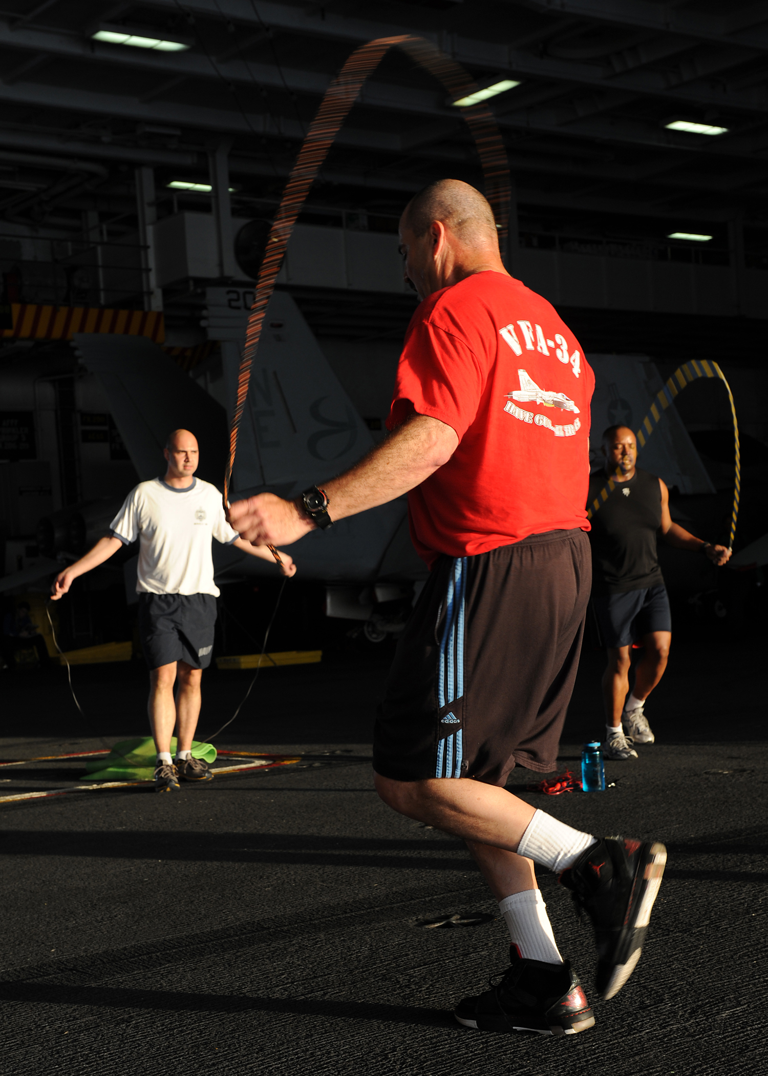 GULF OF OMAN (Nov. 1, 2010) Rear Adm. Mark D. Guadagnini, commander of the Abraham Lincoln Carrier Strike Group, leads a "jump rope for jocks" training session in the hangar bay of the aircraft carrier USS Abraham Lincoln (CVN 72). The Abraham Lincoln Carrier Strike Group is on a scheduled deployment to the U.S. 5th Fleet area of responsibility supporting maritime security operations and theater security cooperation efforts. (U.S. Navy photo by Mass Communication Specialist 2nd Class Alan Gragg/Released)